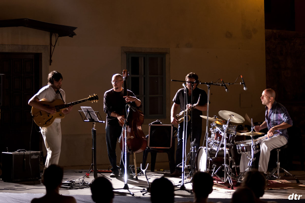 Denis Razz quartet on one of the city squares